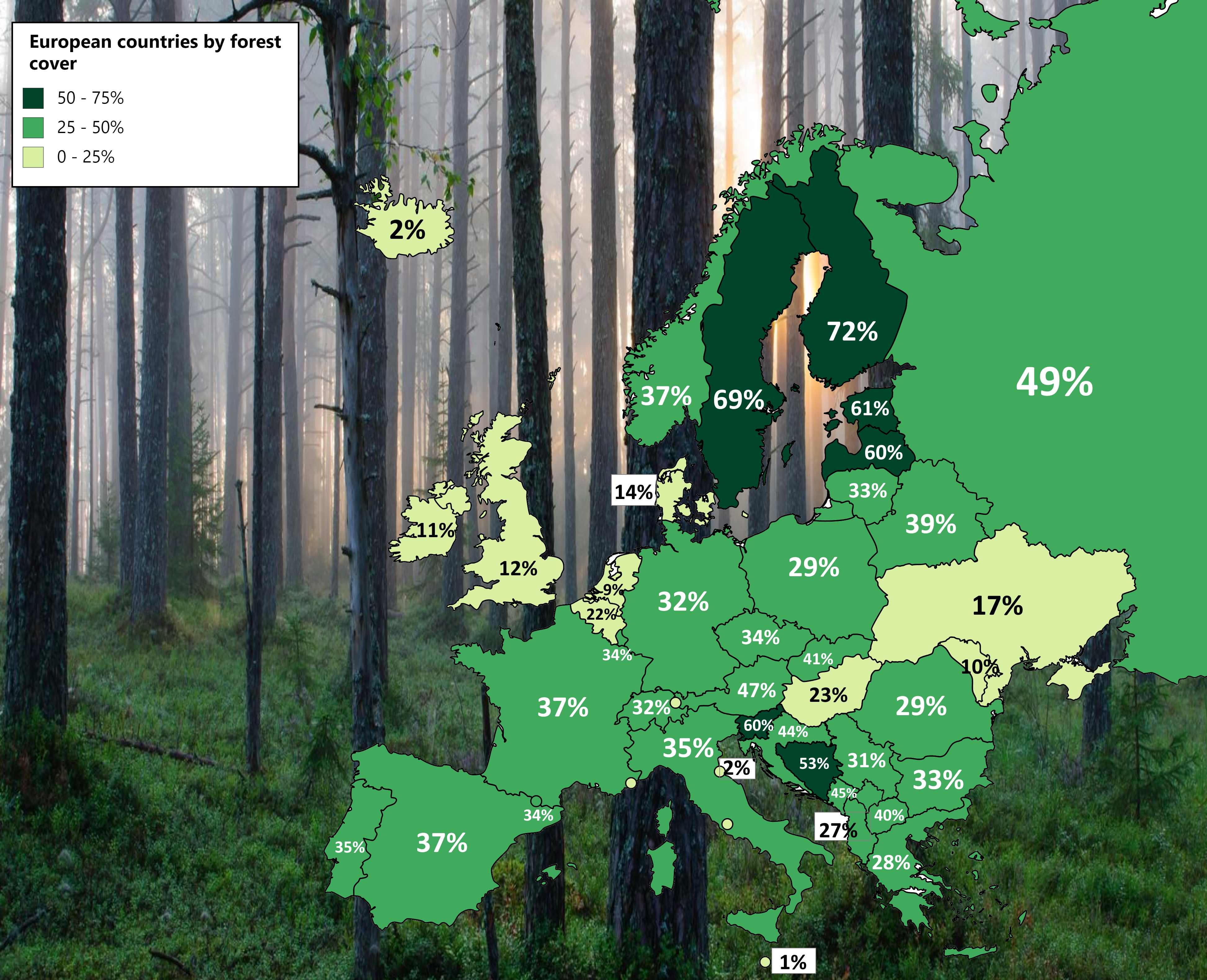 European countries by forest cover, based on CIA World Factbook 2011